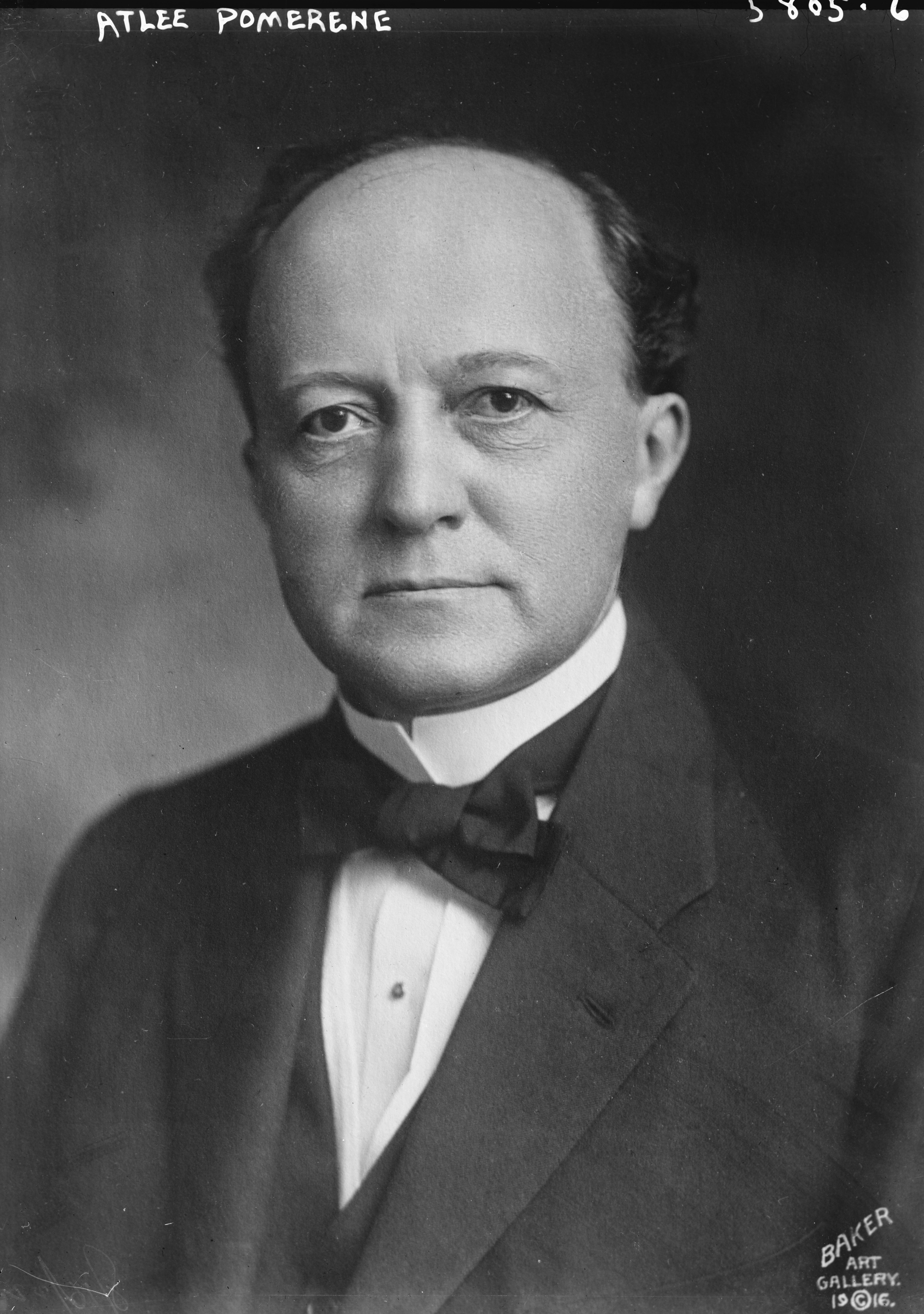 Photoportrait of Senator Atlee Pomerene of Ohio